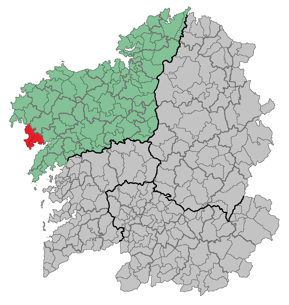 Region of Galicia (Spain)Based in: Image:Location of Muros.png Source: Designed by Leoplus. Original picture, designed by Caiser.